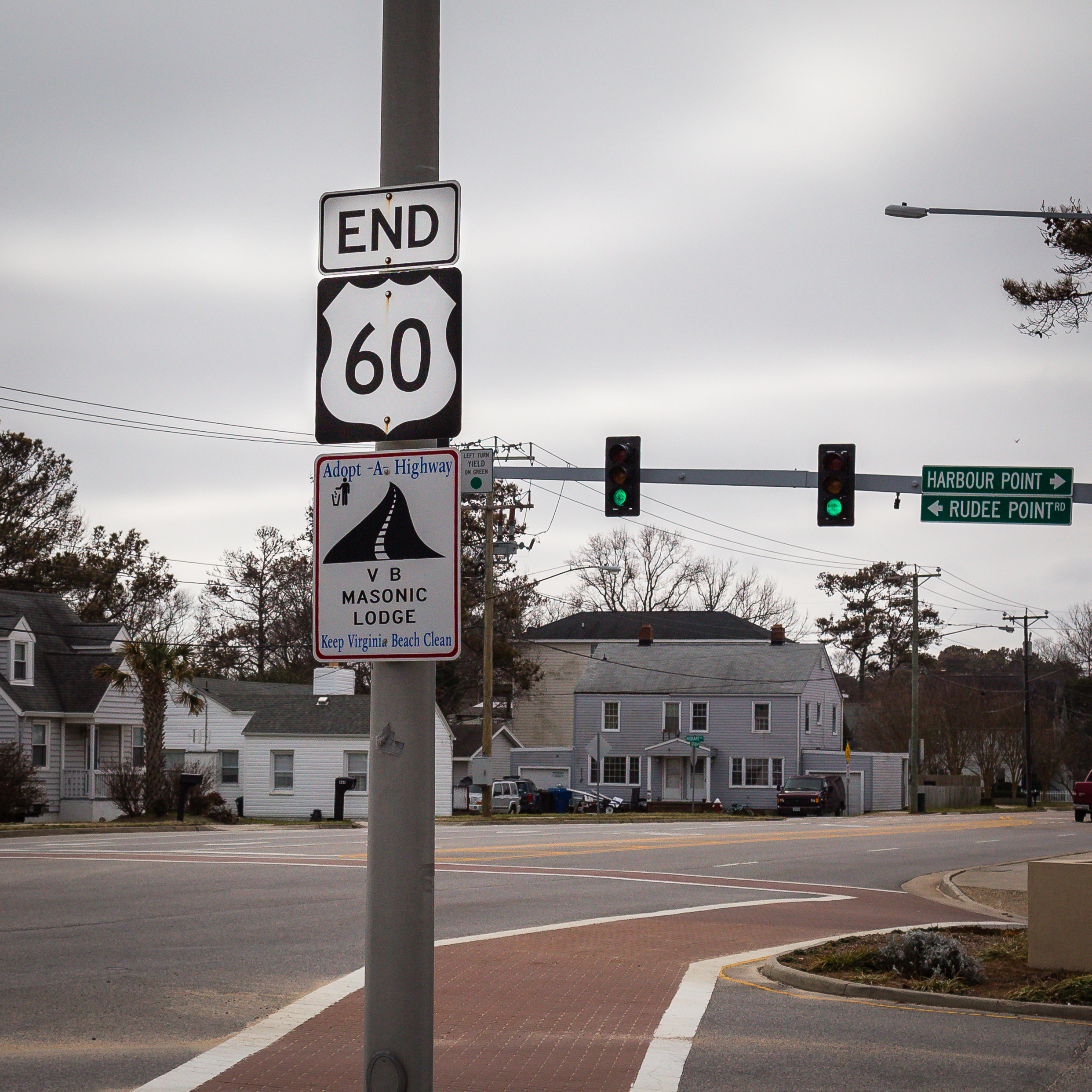 Eastern Terminus U.S. Highway 60 U.S. Route 60 runs from this point in Virginia Beach, VA, about 2,670 miles (4,300 km) to south western Arizona.